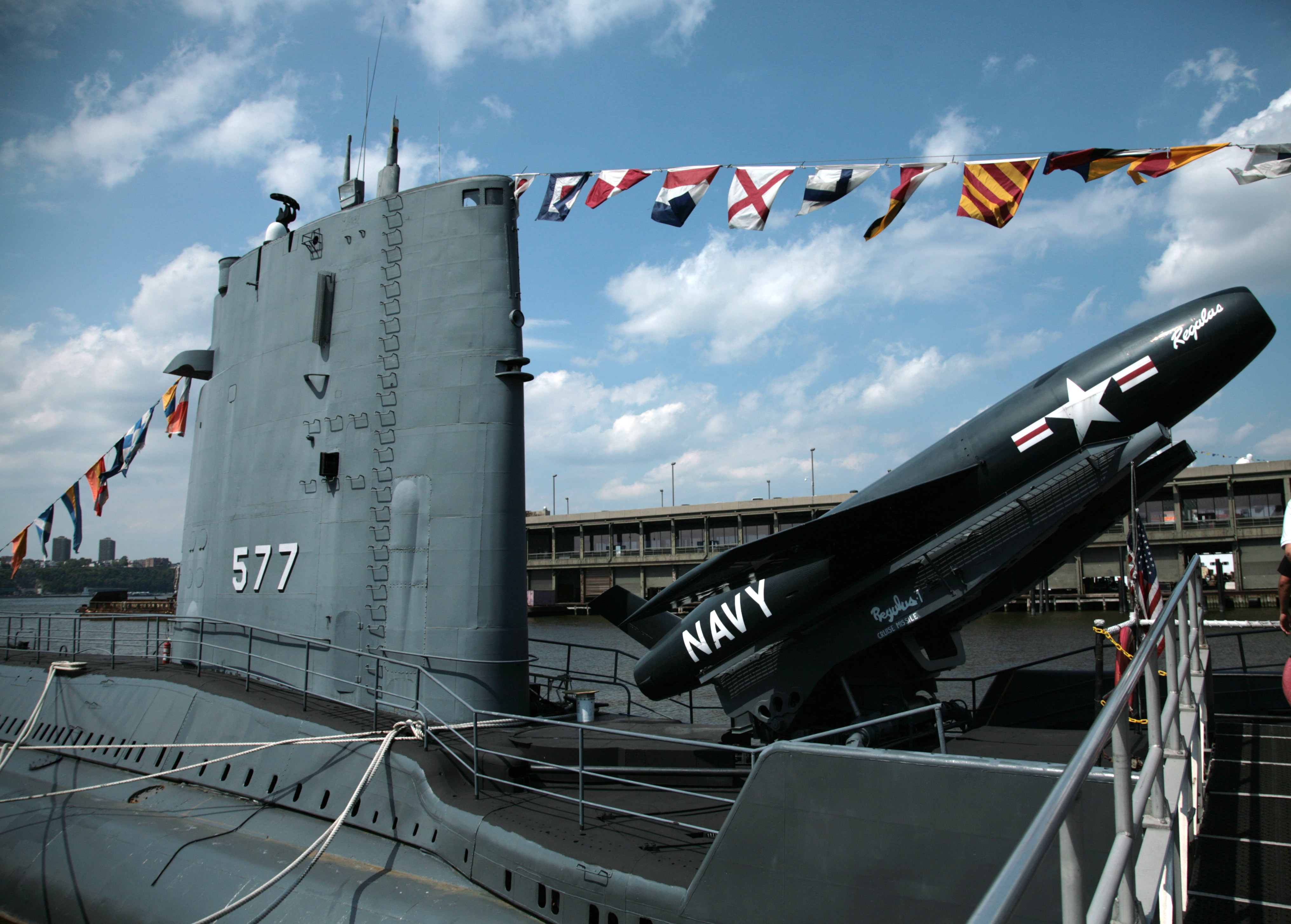 USS Growler, a Grayback-class submarine USS. Tied up next to USS Intrepid in New York in August 2006. A Regulus I surface to surface nuclear missile raised in a launch position.